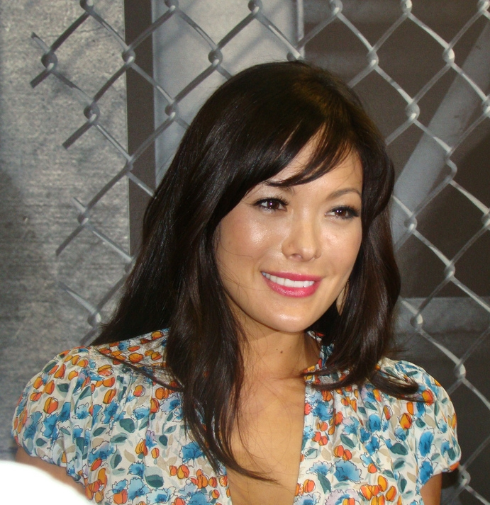 Actress Lindsay Price